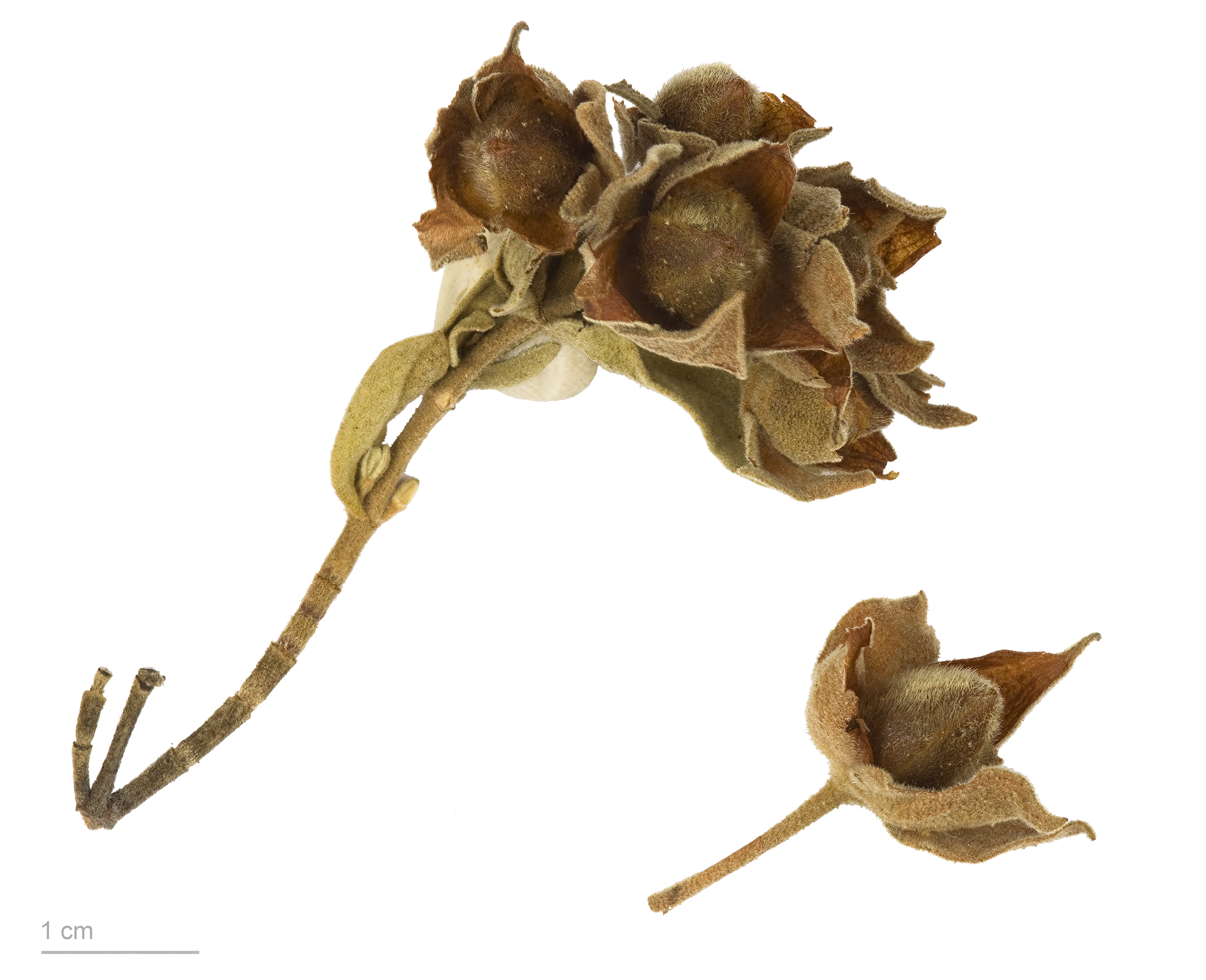 Cistus albidus , fruits and seeds